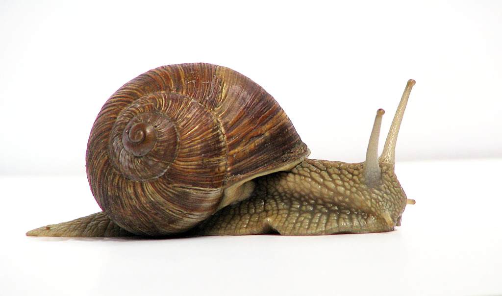 Picture of a grapevine snail.